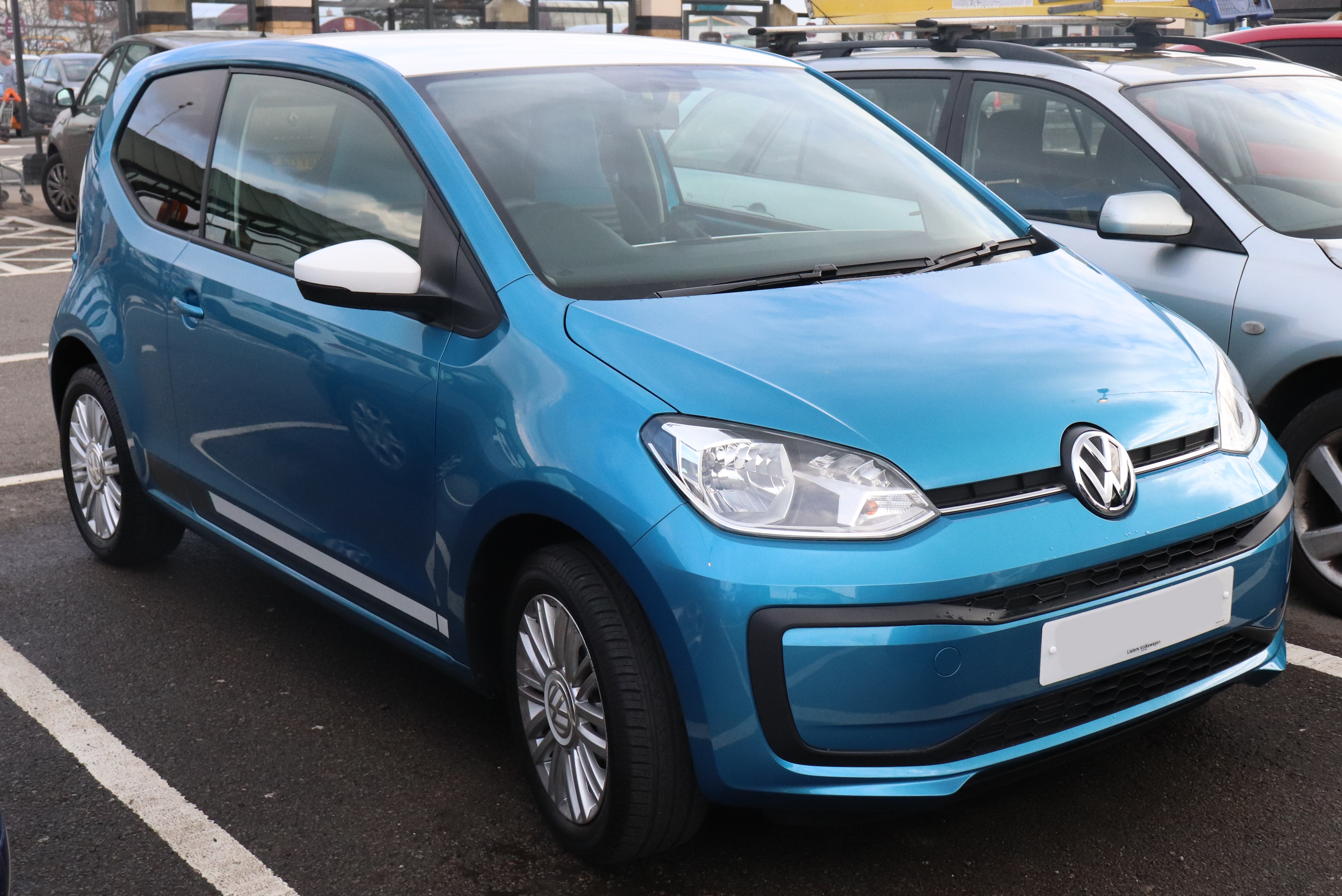 2017 Volkswagen Move Up facelift 1.0 Front Taken in Leamington Spa